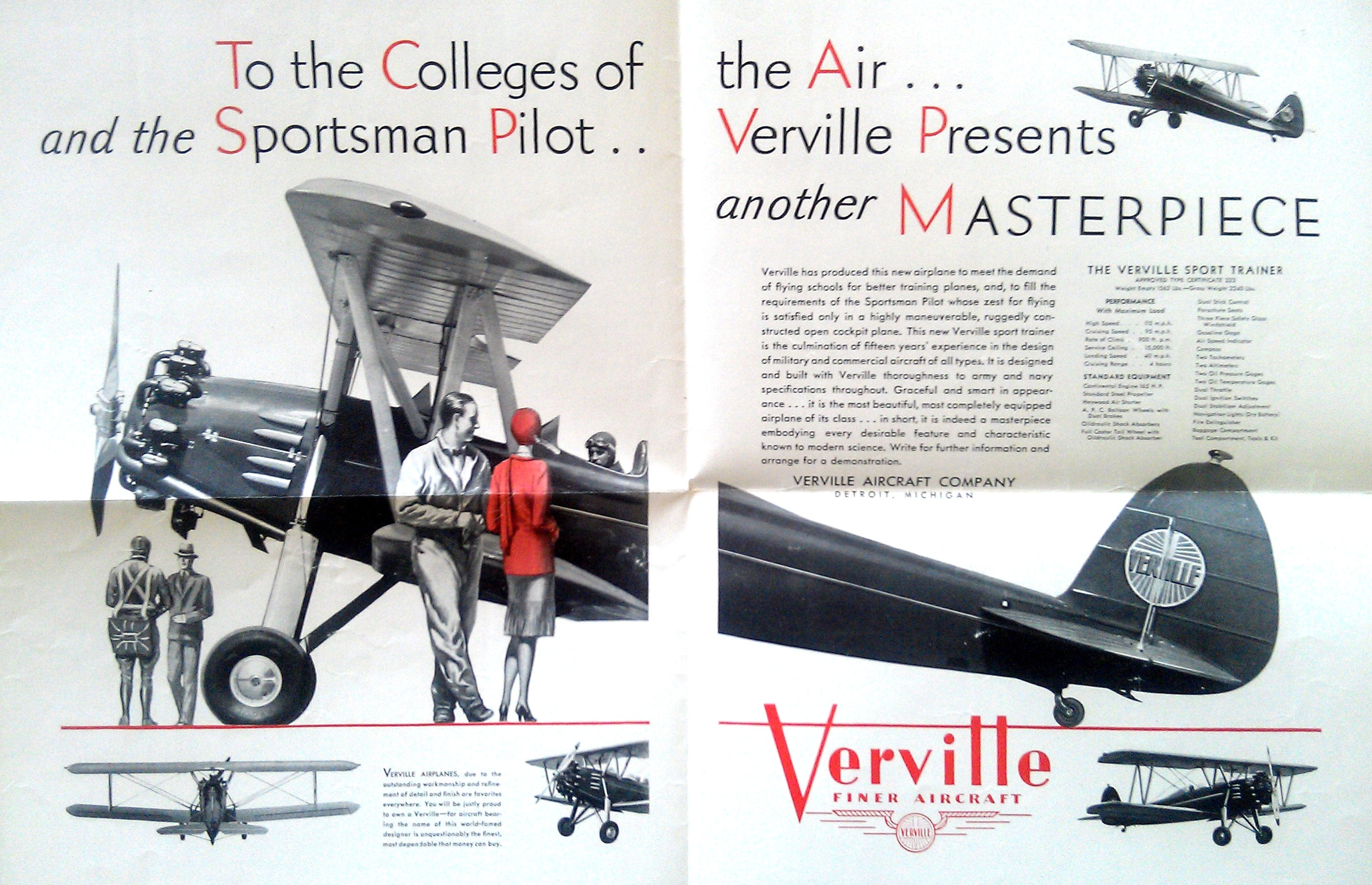 My photo of Verville Trainer Ad